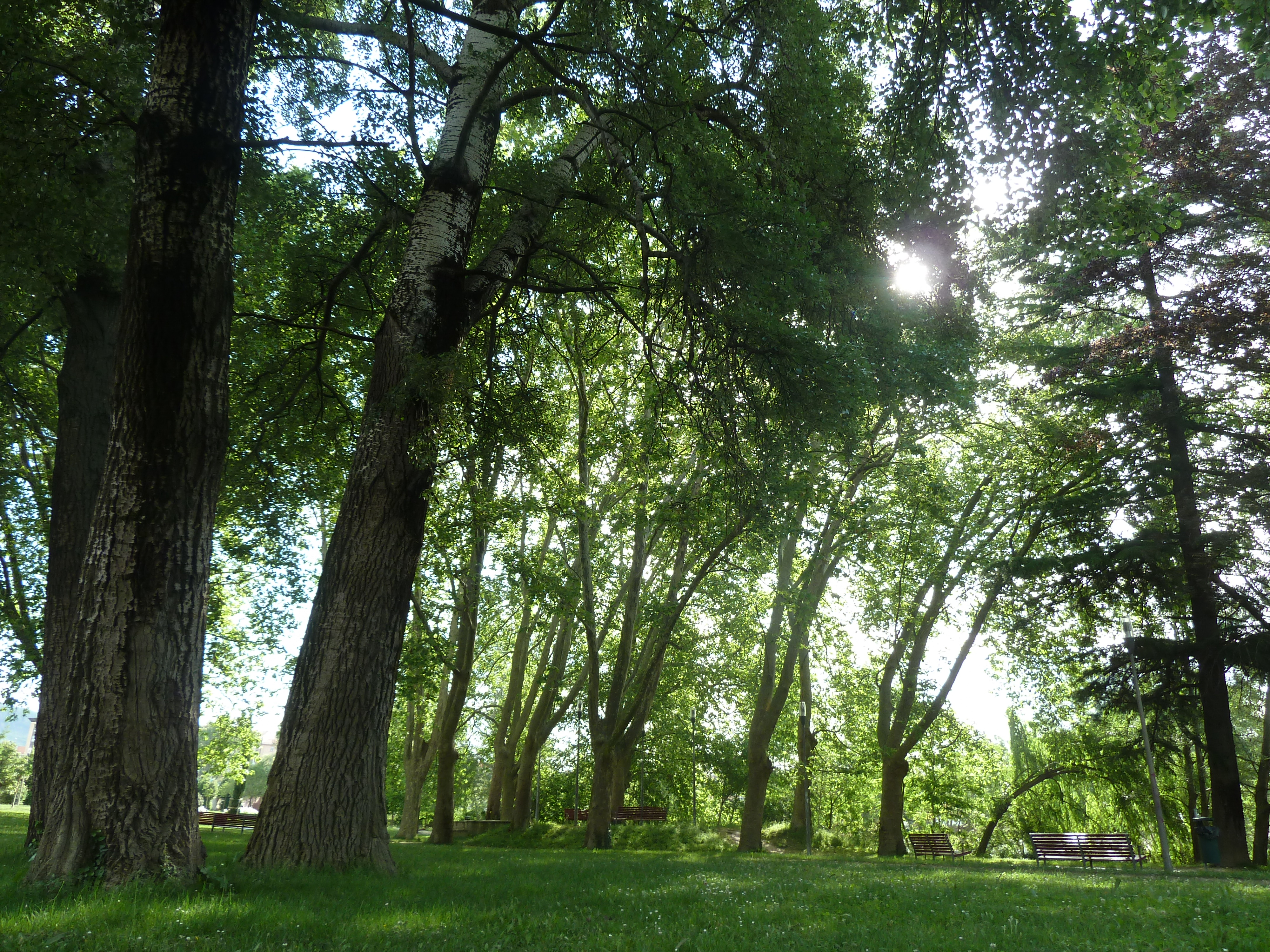 The name comes from businessman Carlos Eugui, alias "Txiki" who built this garden next to a stately home. In it you can find some of the most unique and old trees of Pamplona/Iruña. Here begins the stretch of San Jorge/Sanduzelai in the Pamplona/Iruña Riverside Park.